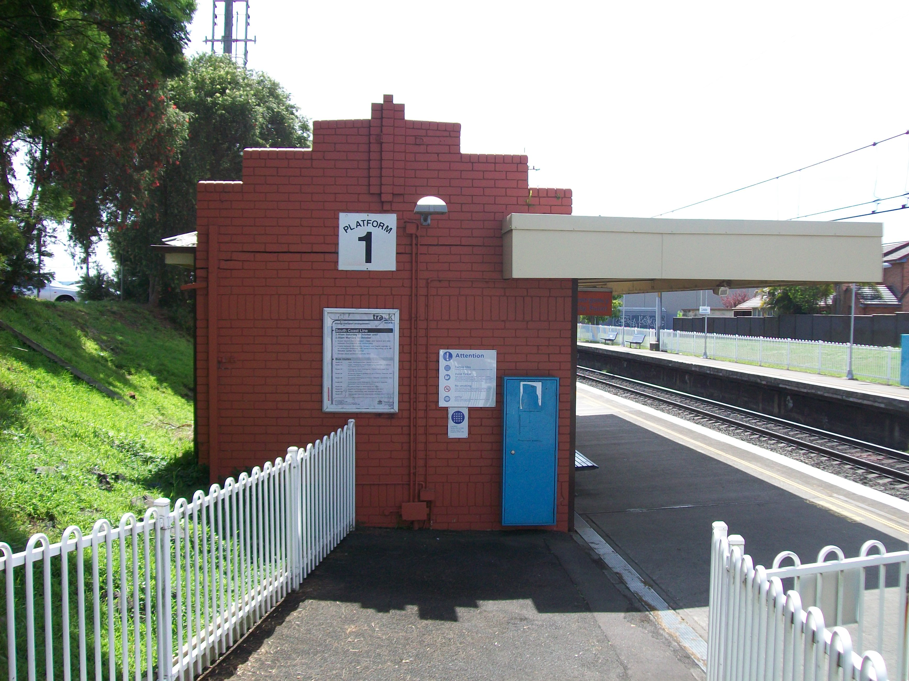 Coniston Railway station Platform 1 entrance